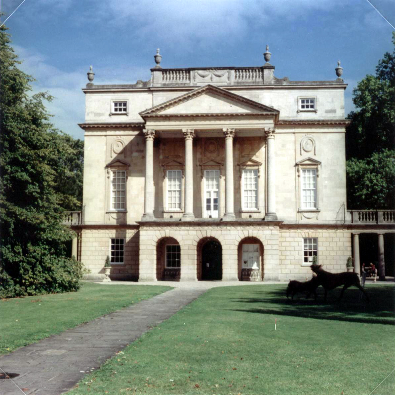 Taken with a Kodak Instamatic 500 using Solaris film in Summer/Autumm 2005, Bath.